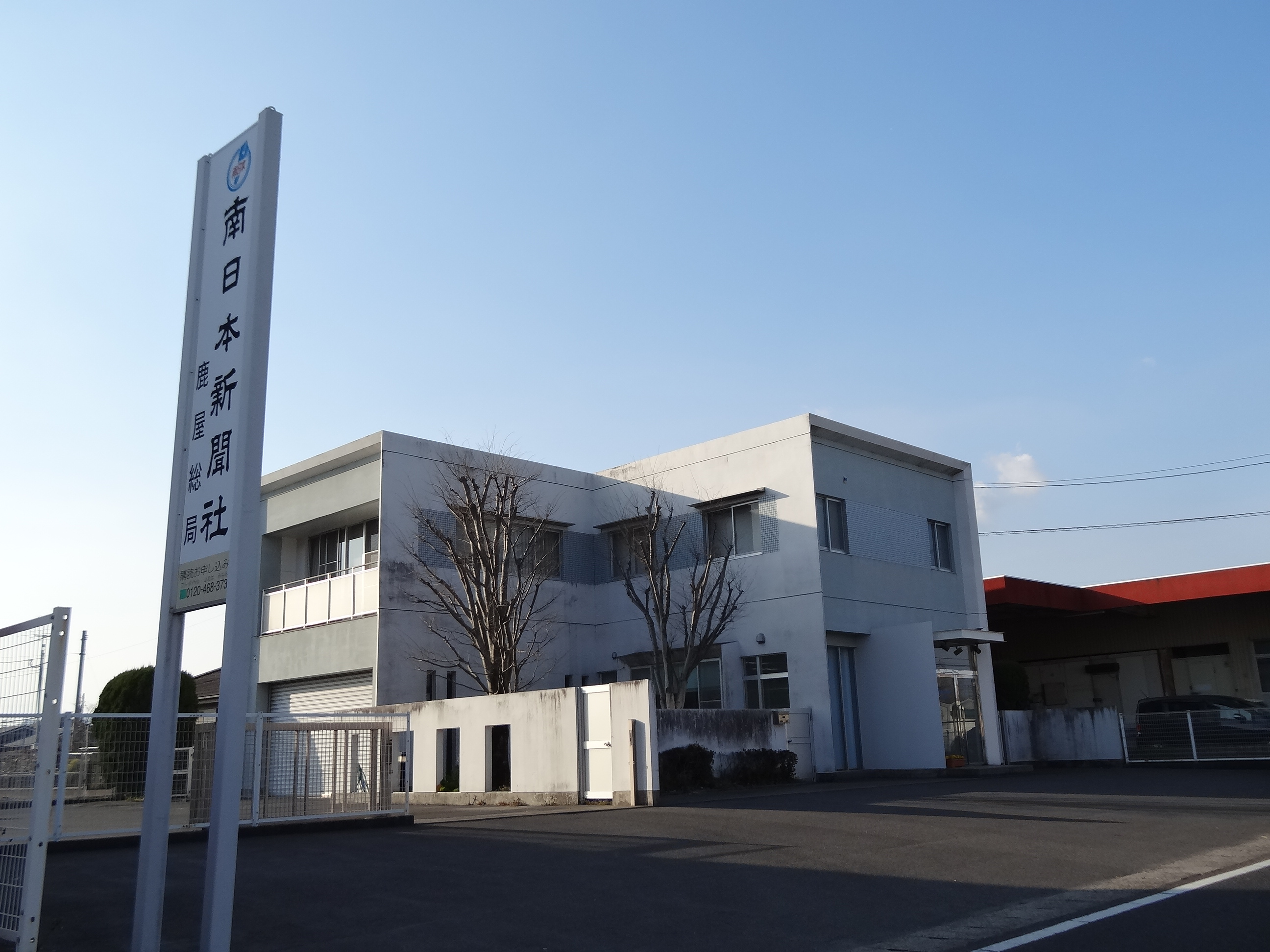 Minami-Nippon Shimbun Kanoya Branch (a Japanese Newspaper in Kagoshima Prefecture, Japan)